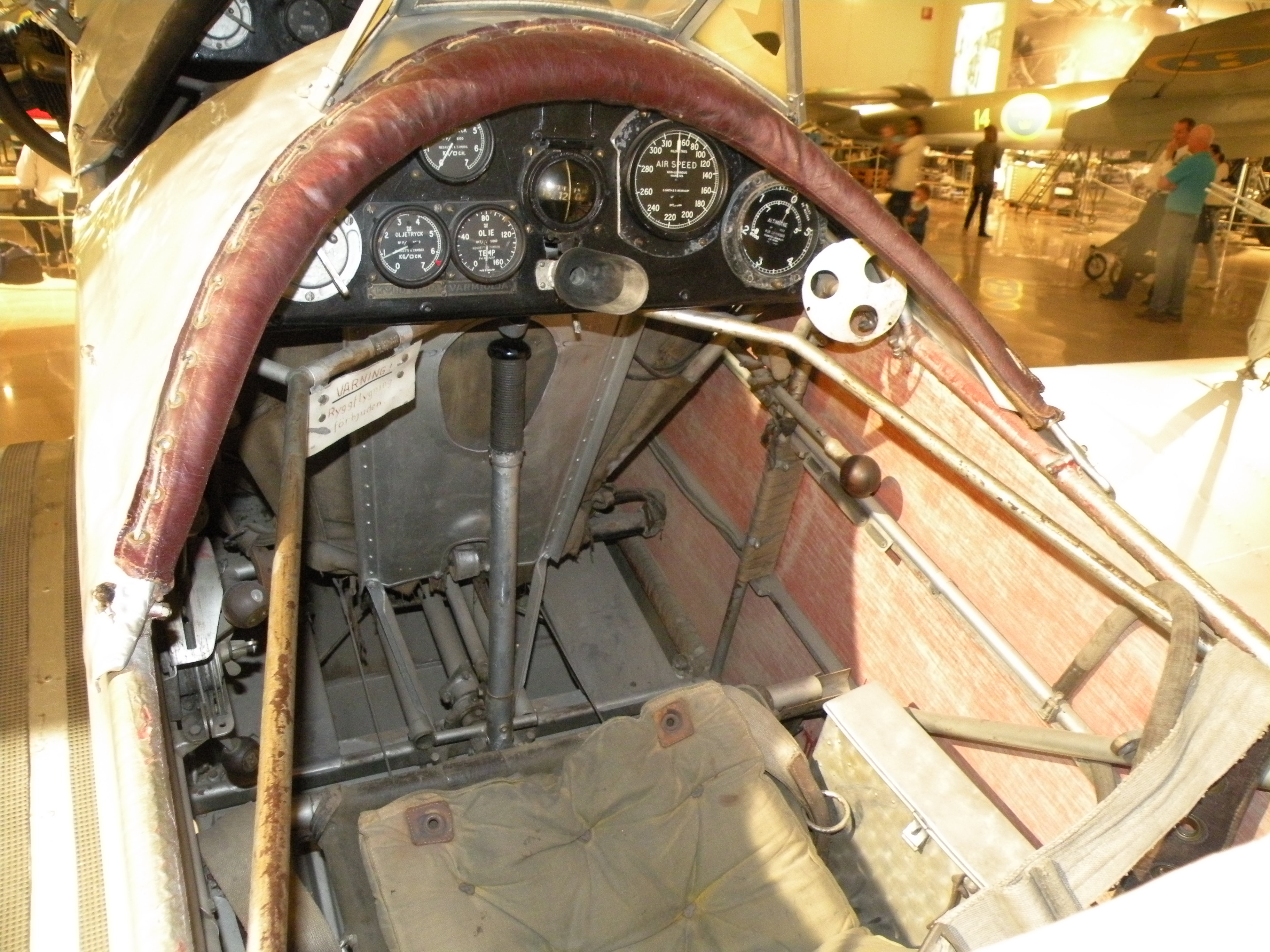 Rear cockpit of the Raab-Katzenstein RK-26 (aka Sk10) Tigerschwalbe at the Swedish Air Force Museum